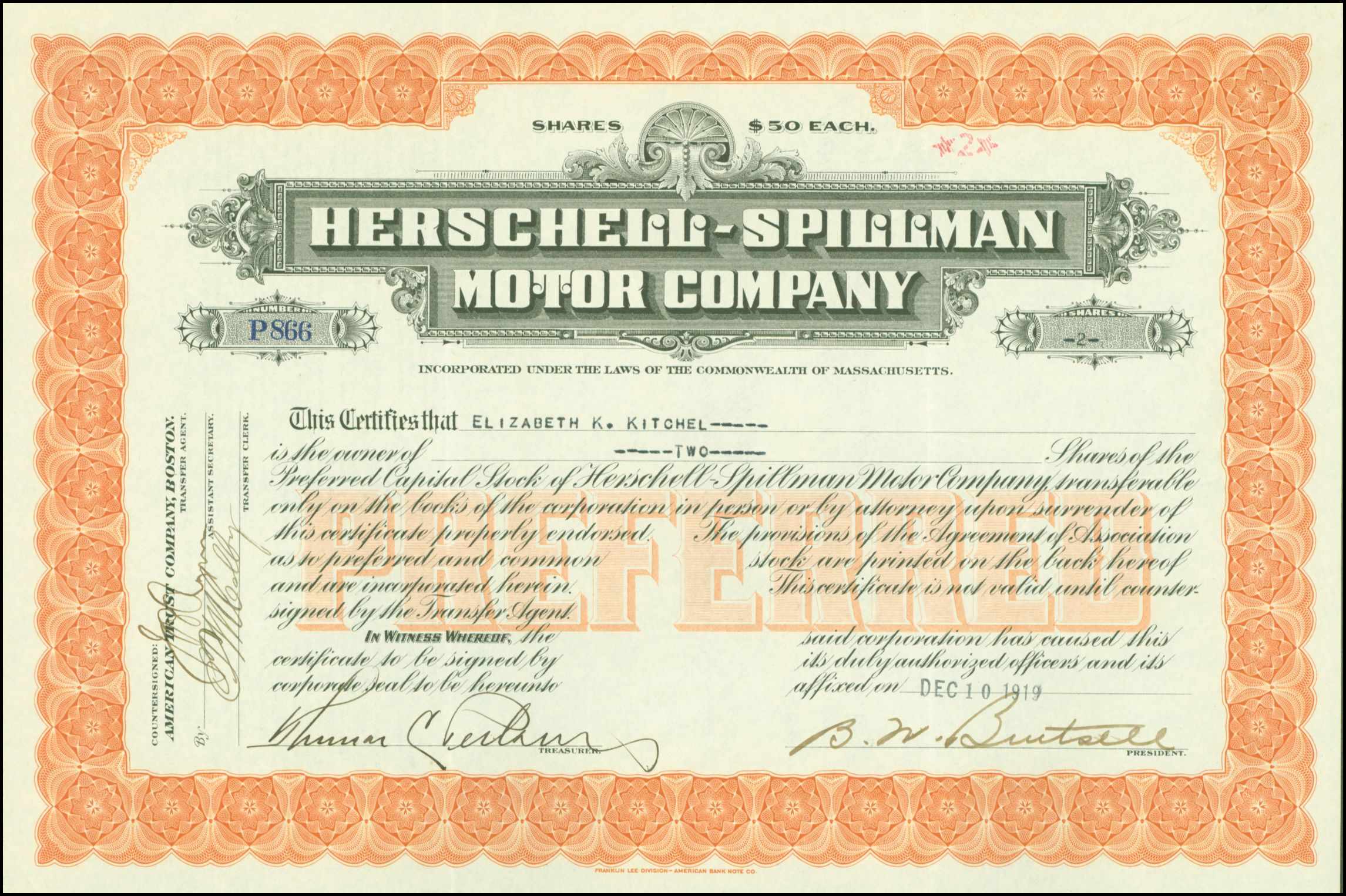 Share of the Herschell-Spillman Motor Company, issued 10. December 1919